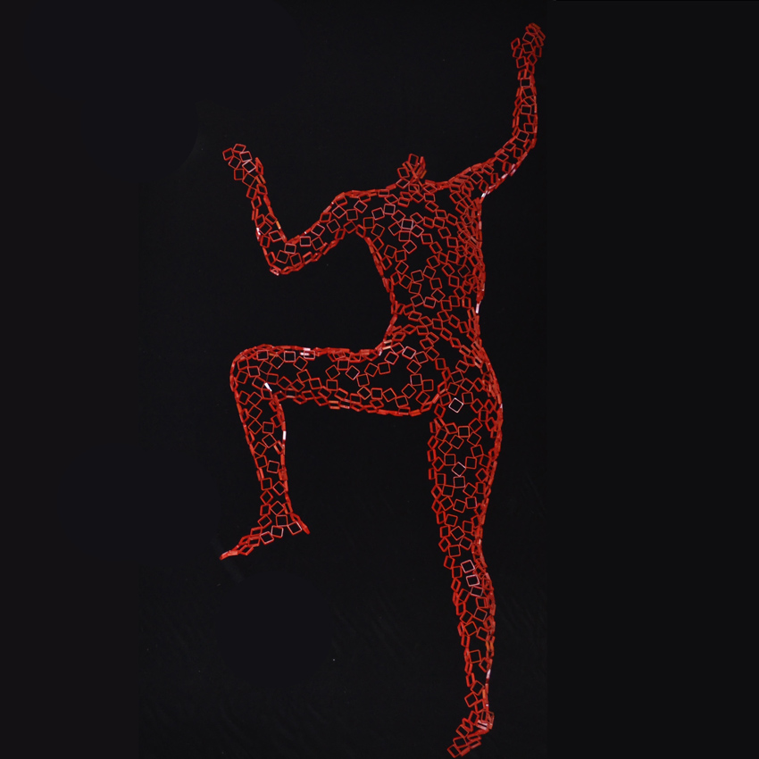 Photo of a Rainer Lagemann statue taken by Rainer Lagemann